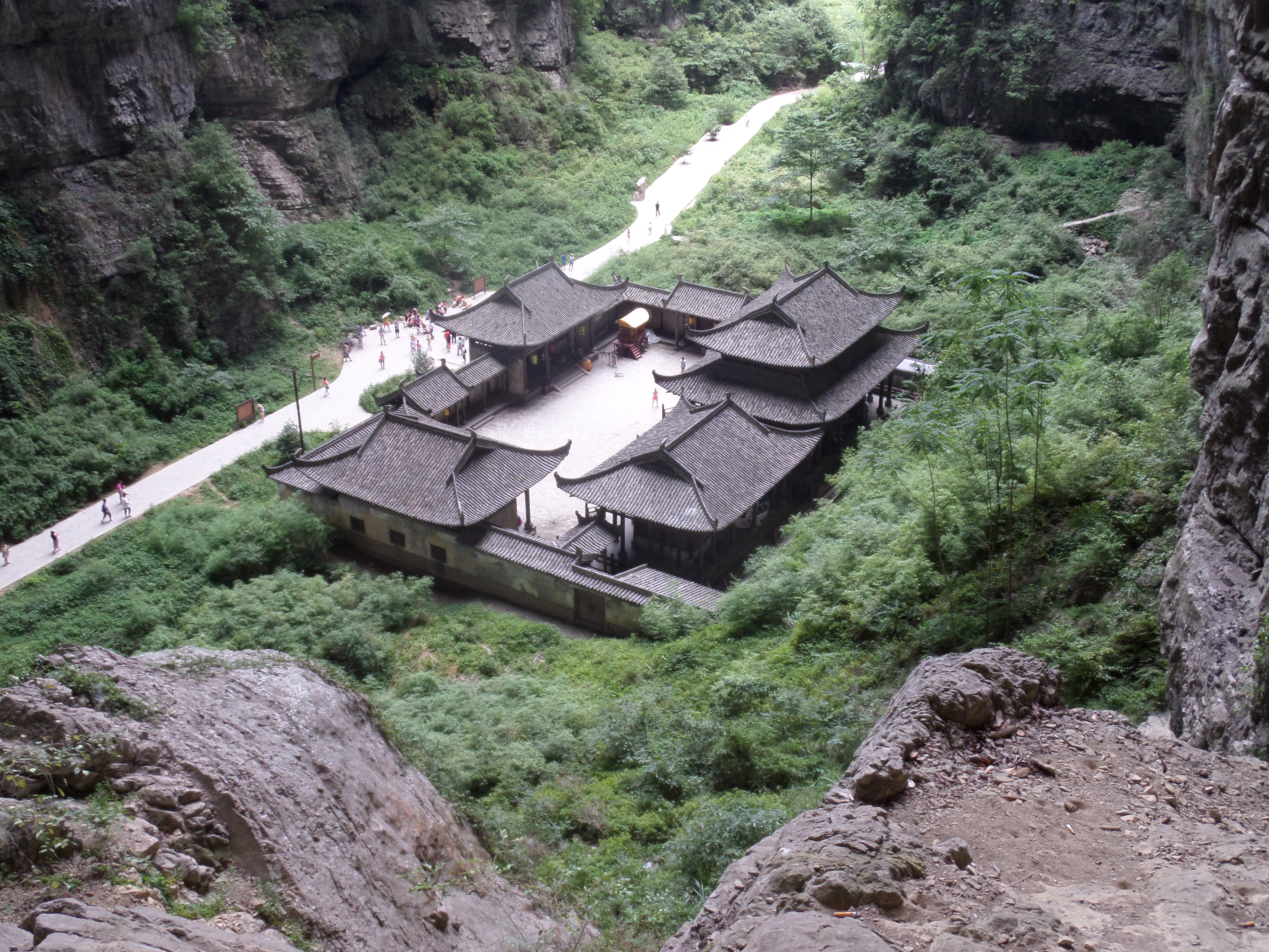 This building is near the base of the Sky Dragon Bridge. The building is a replica of a post house that was originally in the valley. It featured in the 2006 film Curse of the Golden Flower.